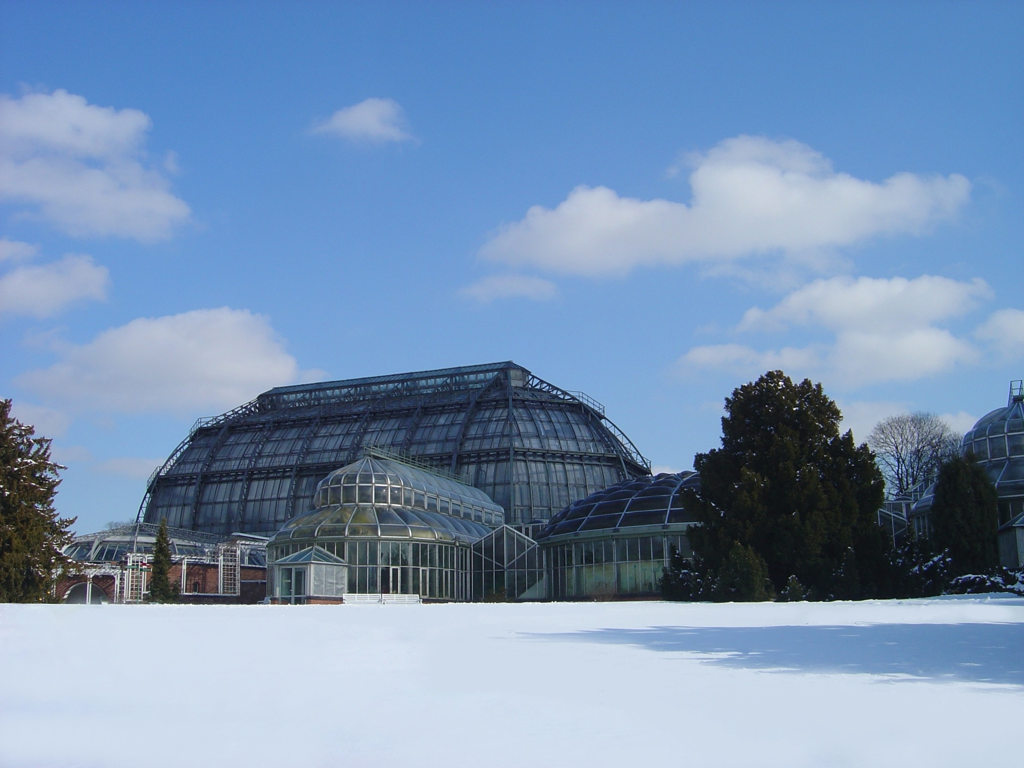 BGBM (Botanical Garden Berlin) Greenhouse in the snow